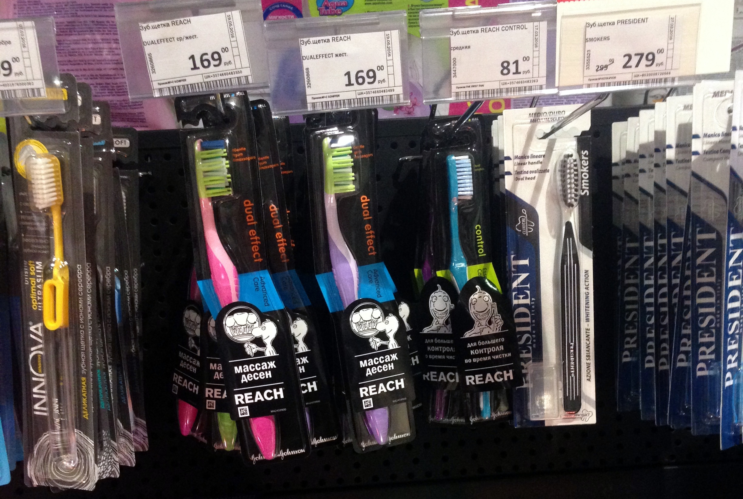 Reach toothbrushes at hypermarket (May, 2016, Russia)